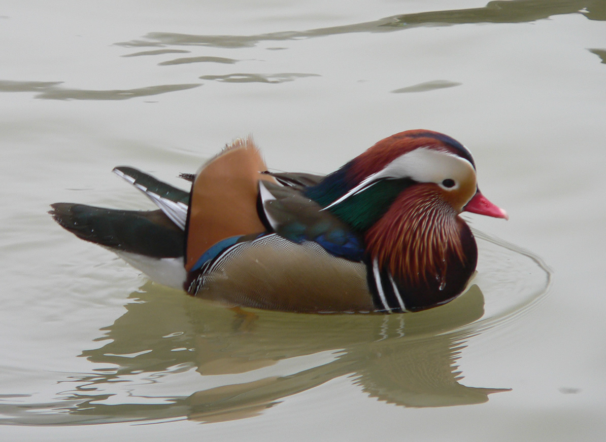 Mandarin Duck